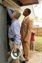 Jarvis2